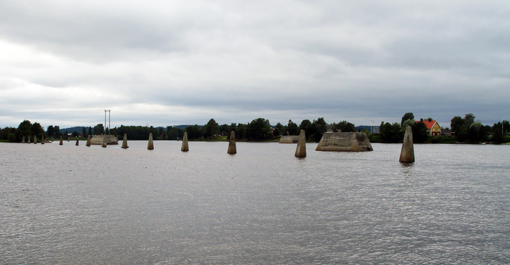 Remains of old facilities for transportation of timber on the river Vindelälven.